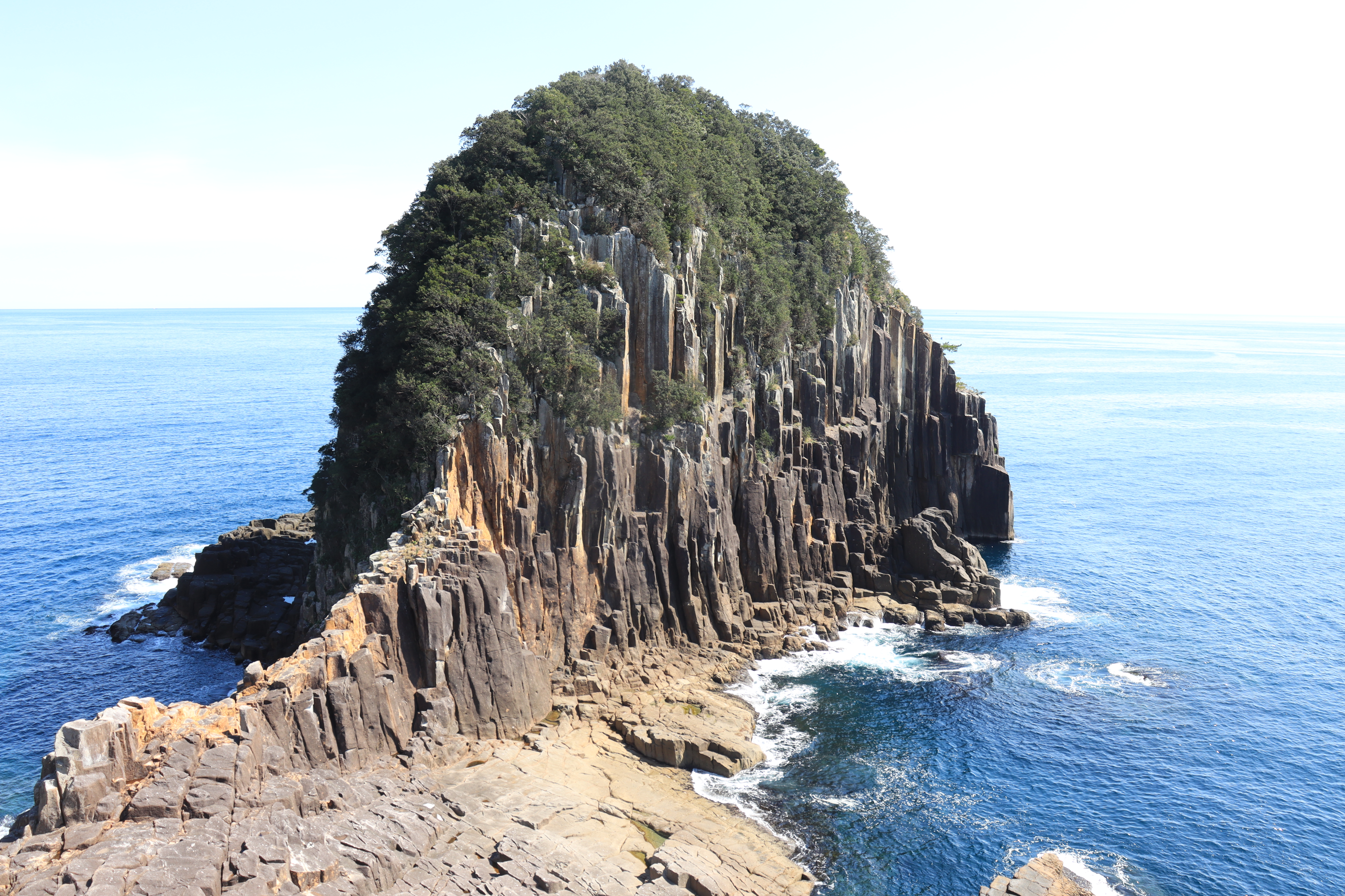 Tategasaki in Hobocho, Kumano, Mie Prefecture Japan.